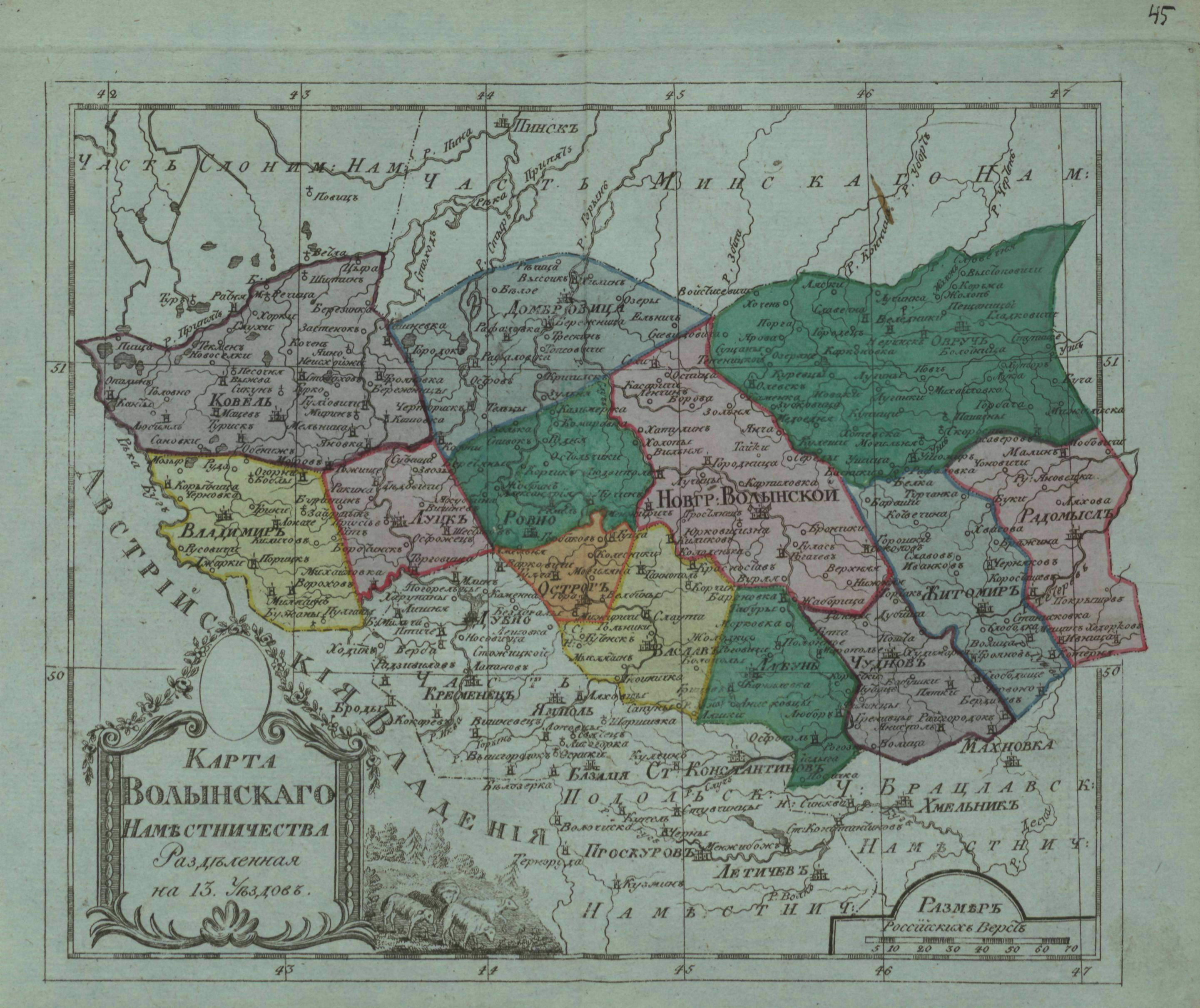 Small atlas of the Russian Empire (1796). Map of Volhynian Namestnichestvo (map 45).